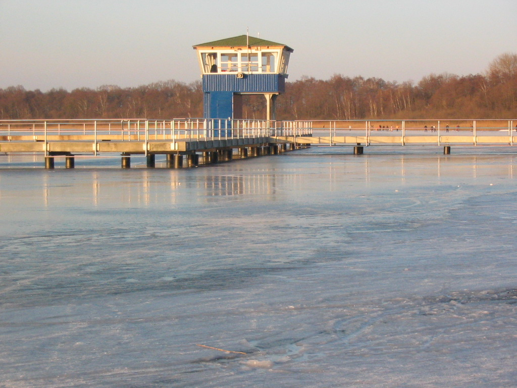 Lake of Neustadt-Glewe (Germany) at winter